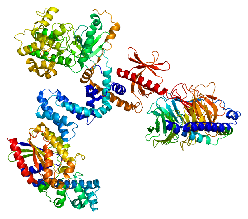 Structure of the GNAQ protein. Based on PyMOL rendering of PDB 2bcj.